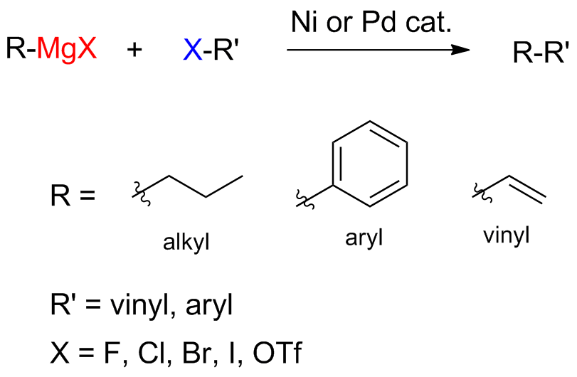 Kumada coupling scheme